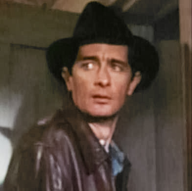 Royal Dano in The Trouble with Harry - trailer (cropped screenshot)